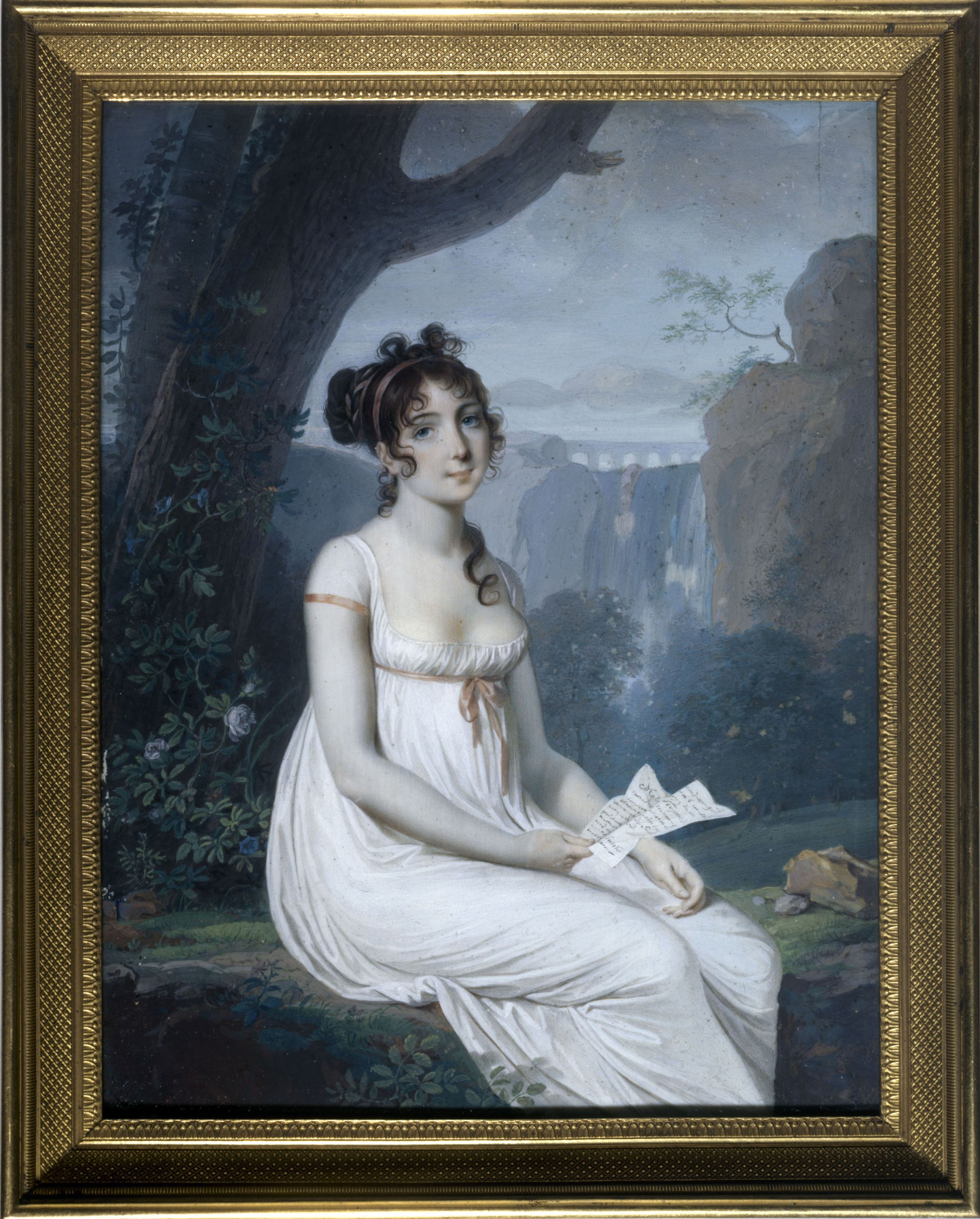 Portrait miniature of the Italian soprano Carolina Crespi. Watercolour and gouache on ivory. The painting is held in the Musée Cognacq-Jay, Paris